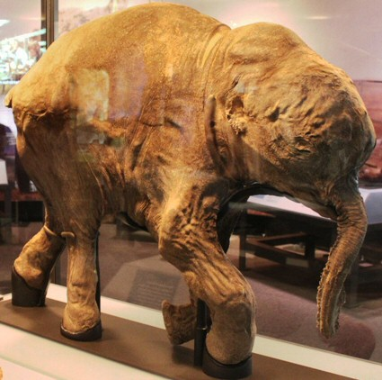 Lyuba, a baby mammoth discovered in 2007 in Siberia. It is part of a special exhibit "Mammoths and Mastodons" at the Field Museum through September.